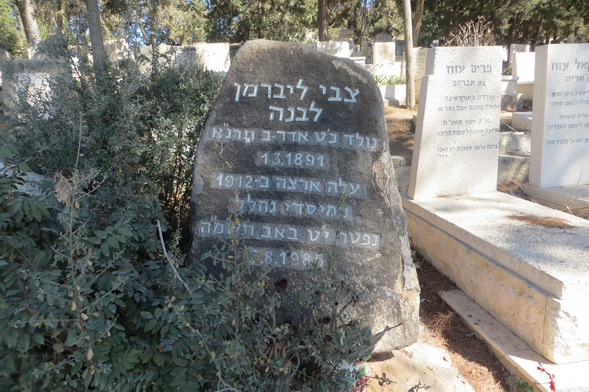 Settlements in Israel